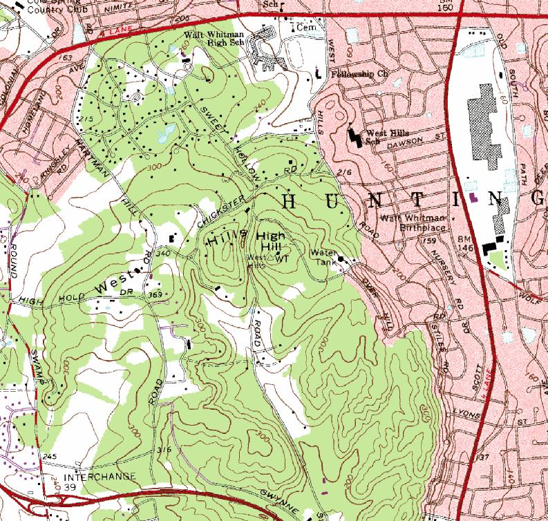 United States Geological Survey map excerpt showing Jayne's Hill (High Hill), from Huntington quad